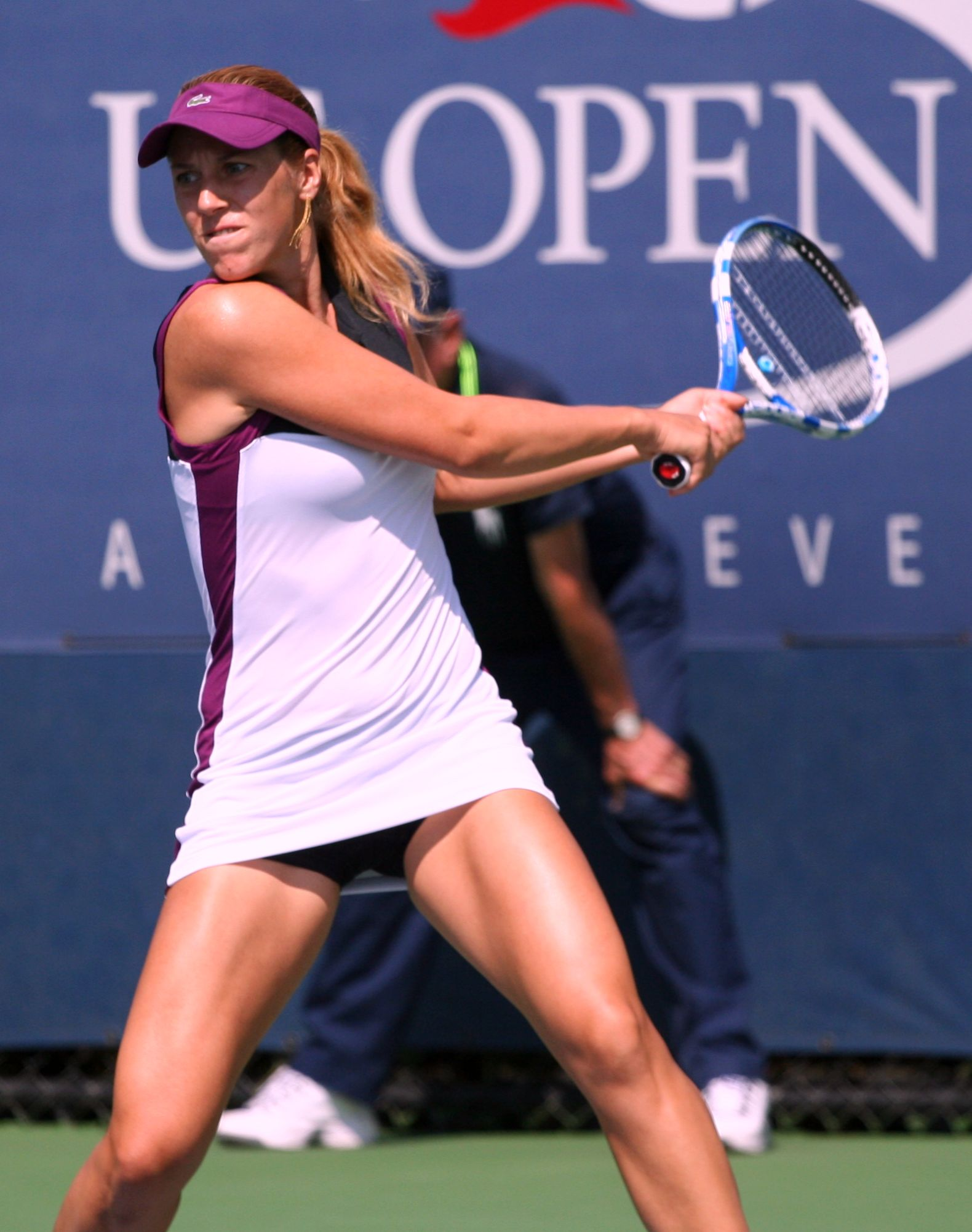 Olga Savchuk at the 2011 U.S. Open Friday, Sept. 2, 2011